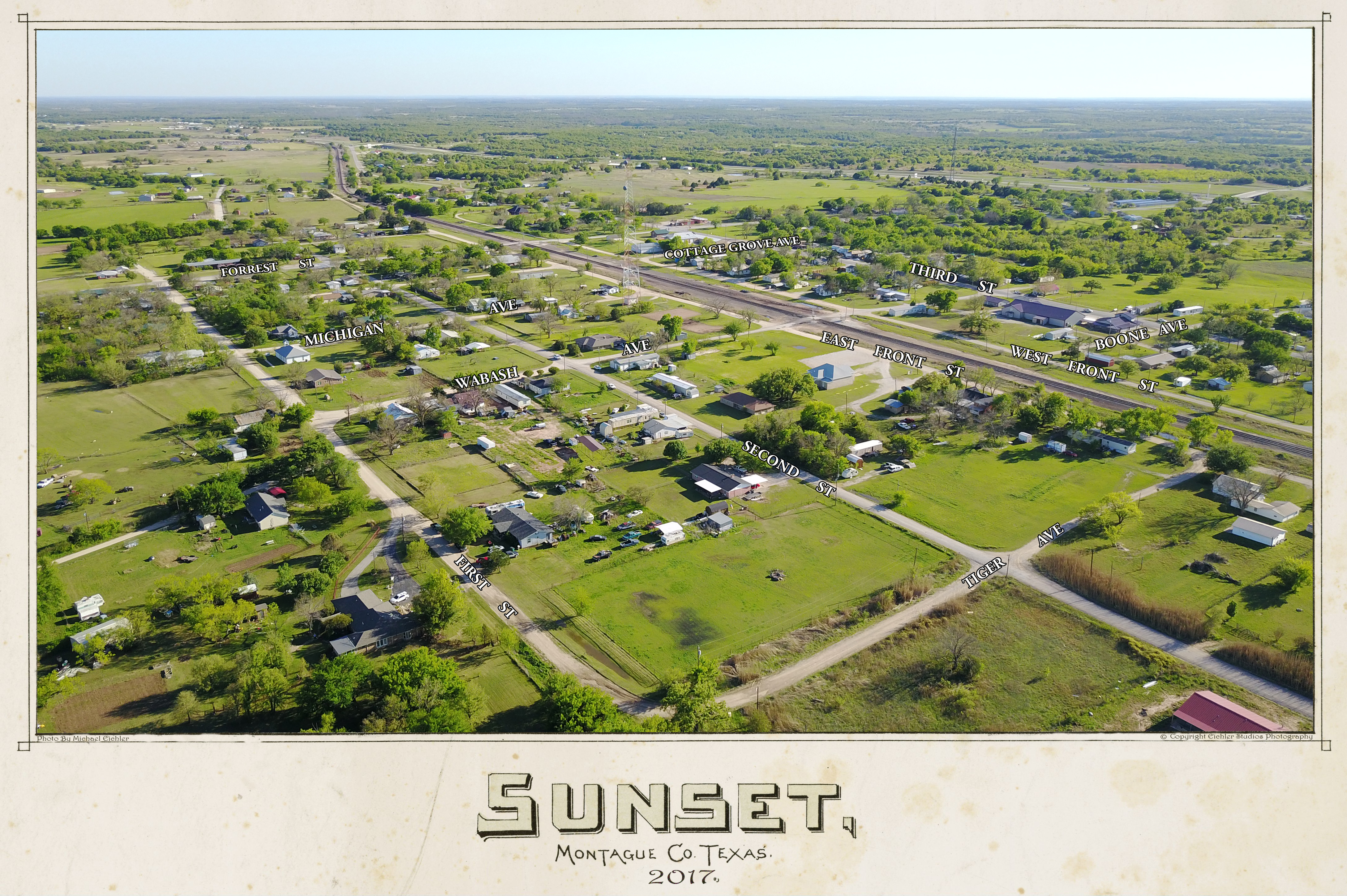 This photo was taken to give a current representation (2017) of Sunset TX in the same spirit of the 1890 drawing done by T.M. Fowler, James & Moyer